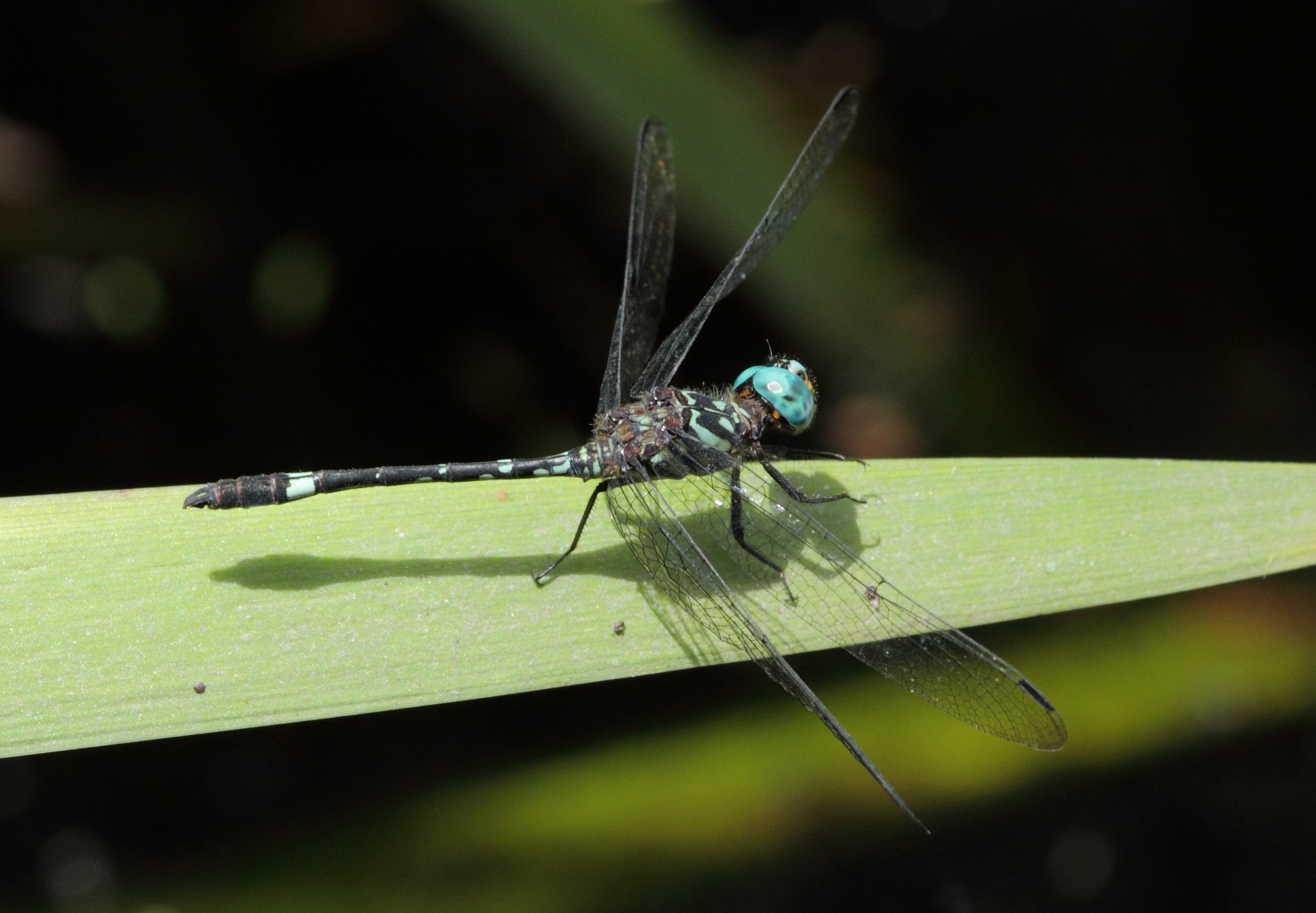 Jones's Forest-Watcher dragonfly in Tala Game Reserve, KwaZulu-Natal